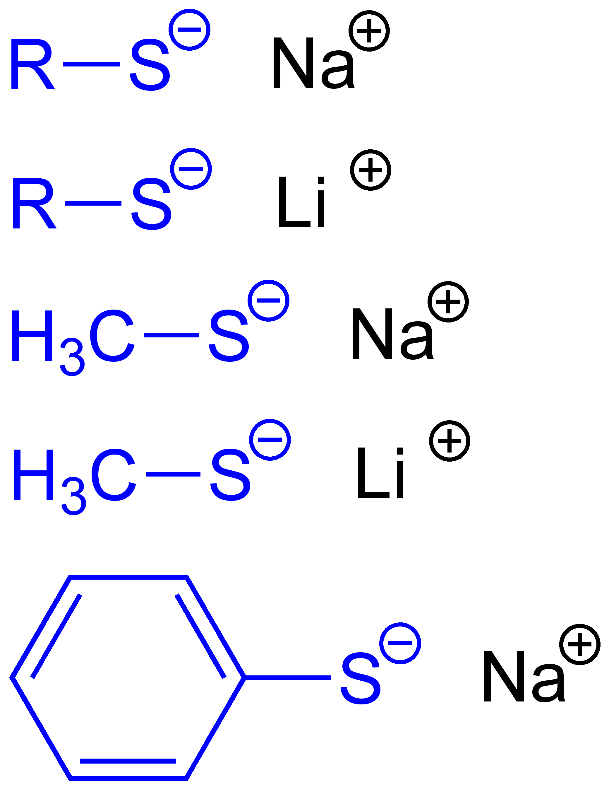 Mercaptides_General_Formulae